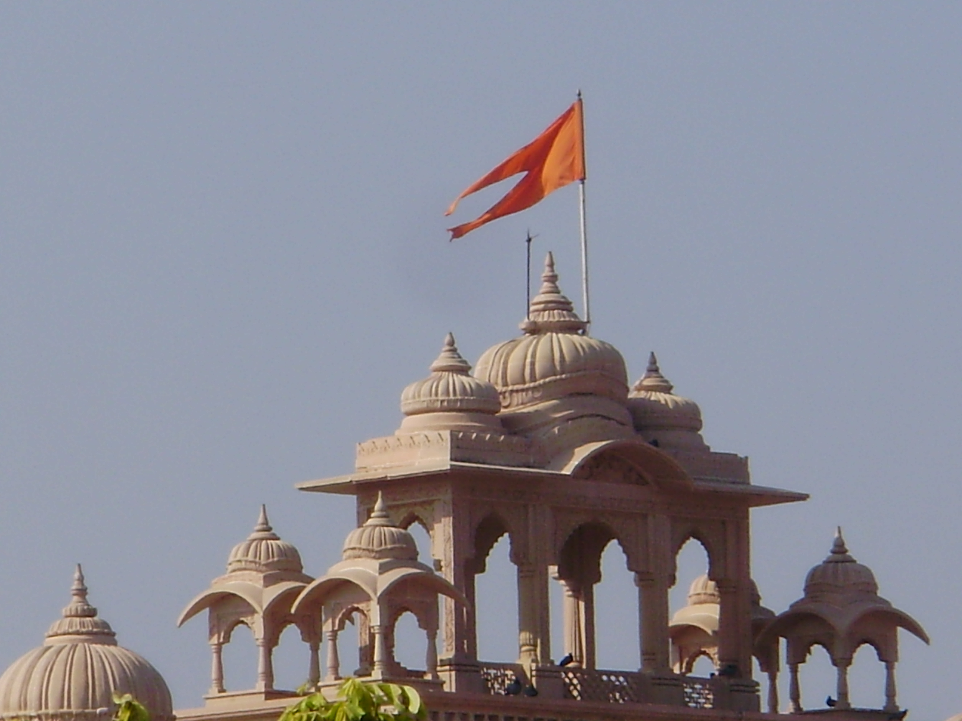 flag and tower at shegaon anandsagar